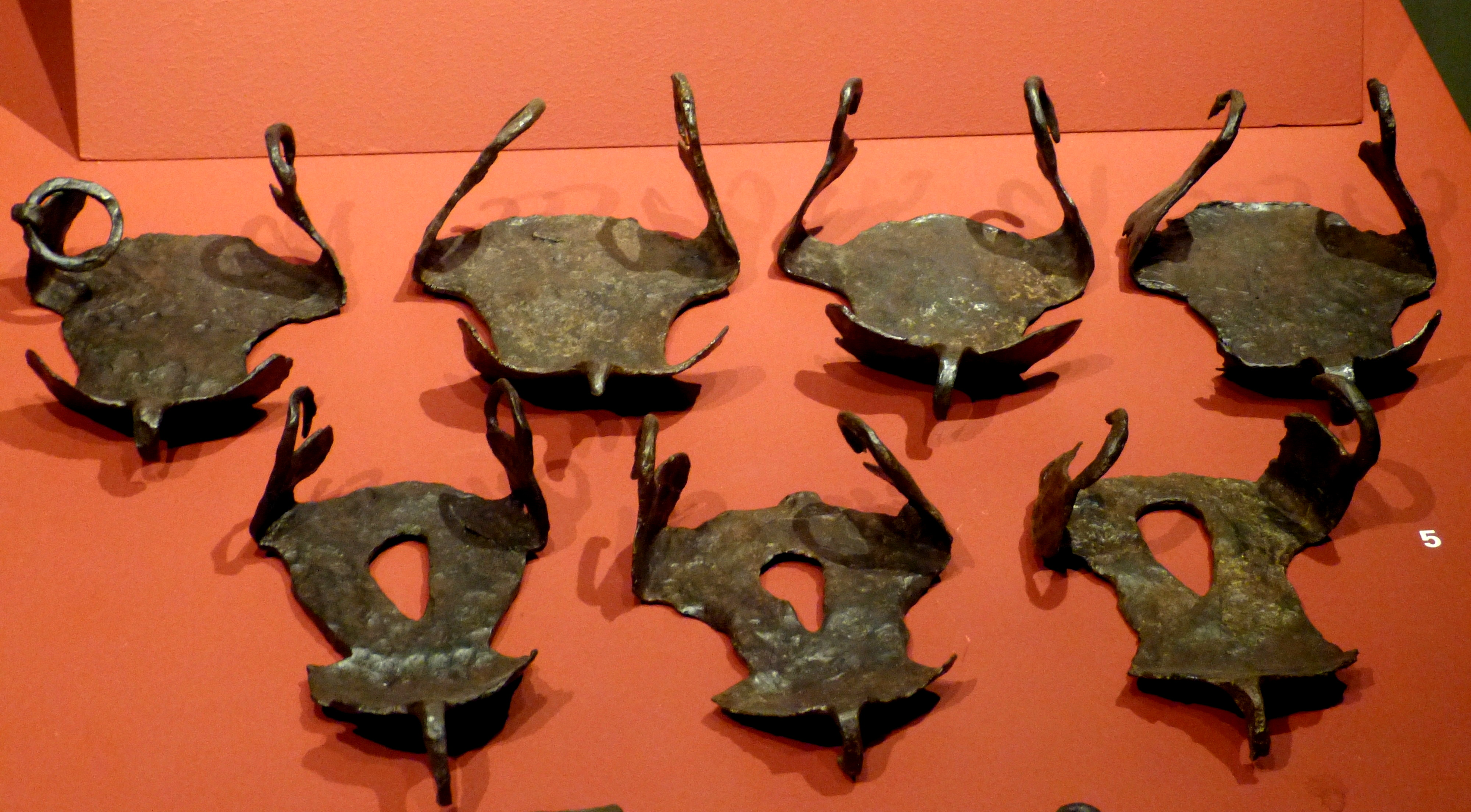 Straubing ( Lower Bavaria ). Gäubodenmuseum: Ancient Roman hipposandals.